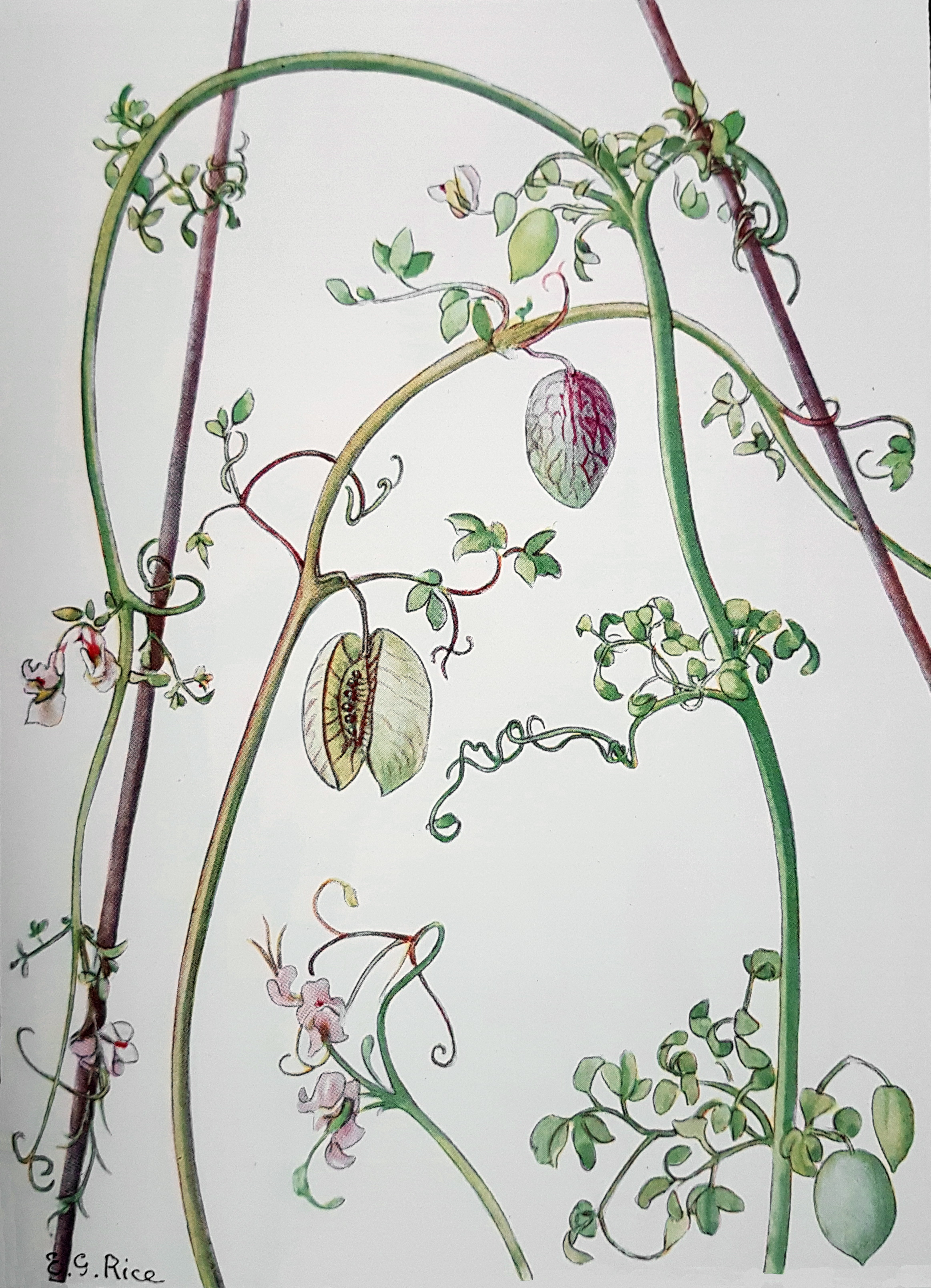 Cysticapnos vesicaria (L.) Fedde - Plate V